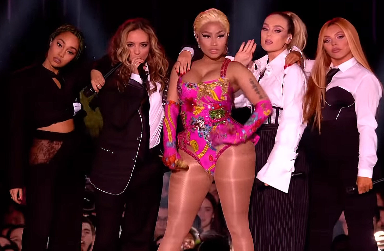 Nicki Minaj & Little Mix performing live at MTV EMAs 2018